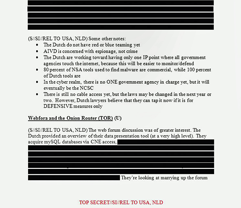 Part of an NSA document about cooperation with the Dutch secret services AIVD and MIVD from February 14, 2013.